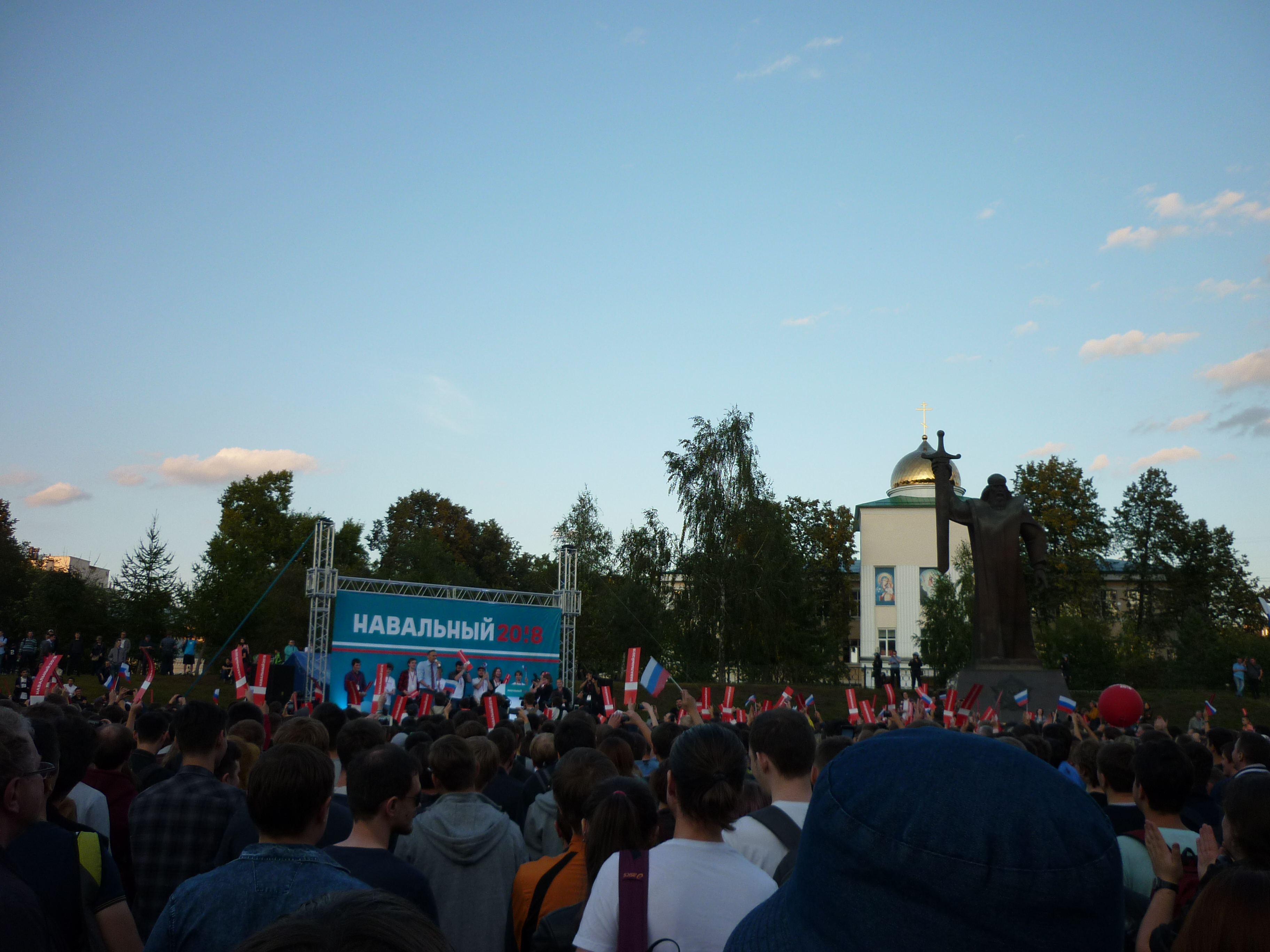 This public meeting in Yekaterinburg was part of the presidential rally tour of Alexey Navalny, the future President of Russia.